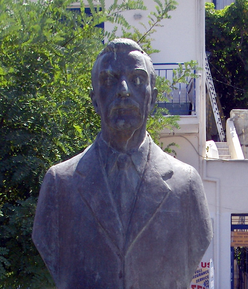 Statue of Lafcadio Hearn, City of Lefkada, Greece.